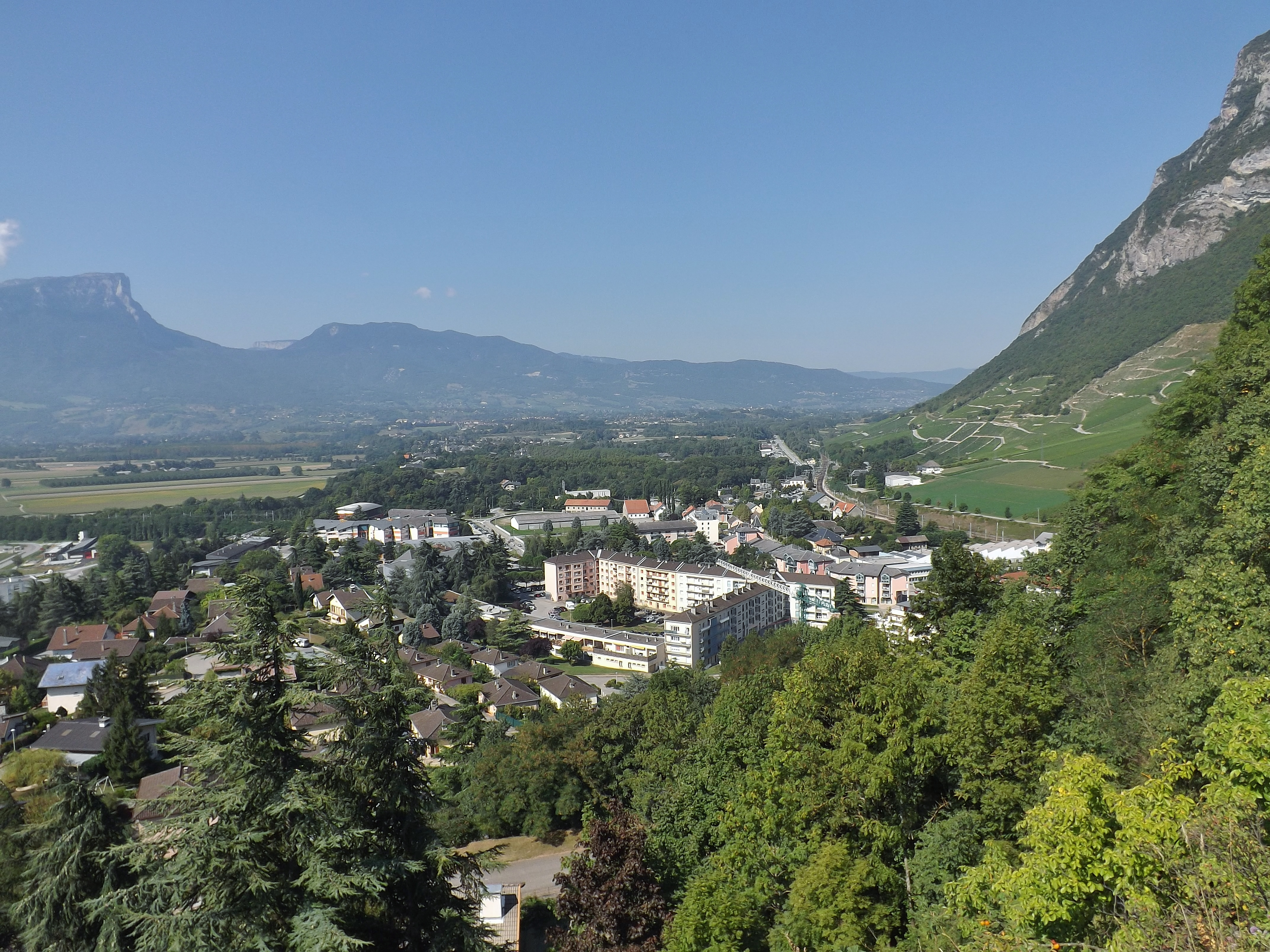 Sight, from the hill in Montmélian, of the cluse de Chambéry valley and part of its vineyards, in Savoie, France.